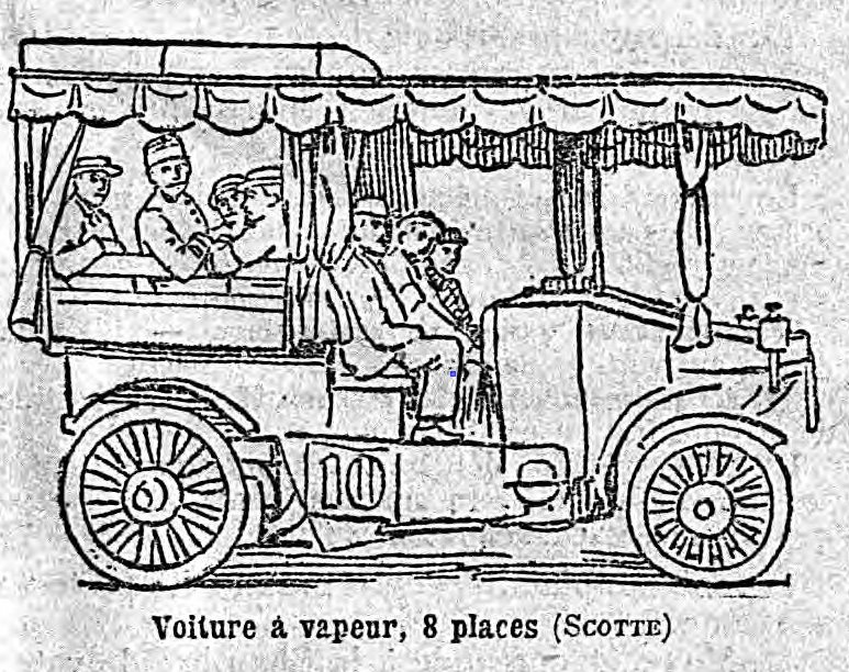 Petit Journal 22 7 1894 Scotte Steam voiture completes Le Petit Journal - Contest for Horseless Carriages, Paris-Rouen.